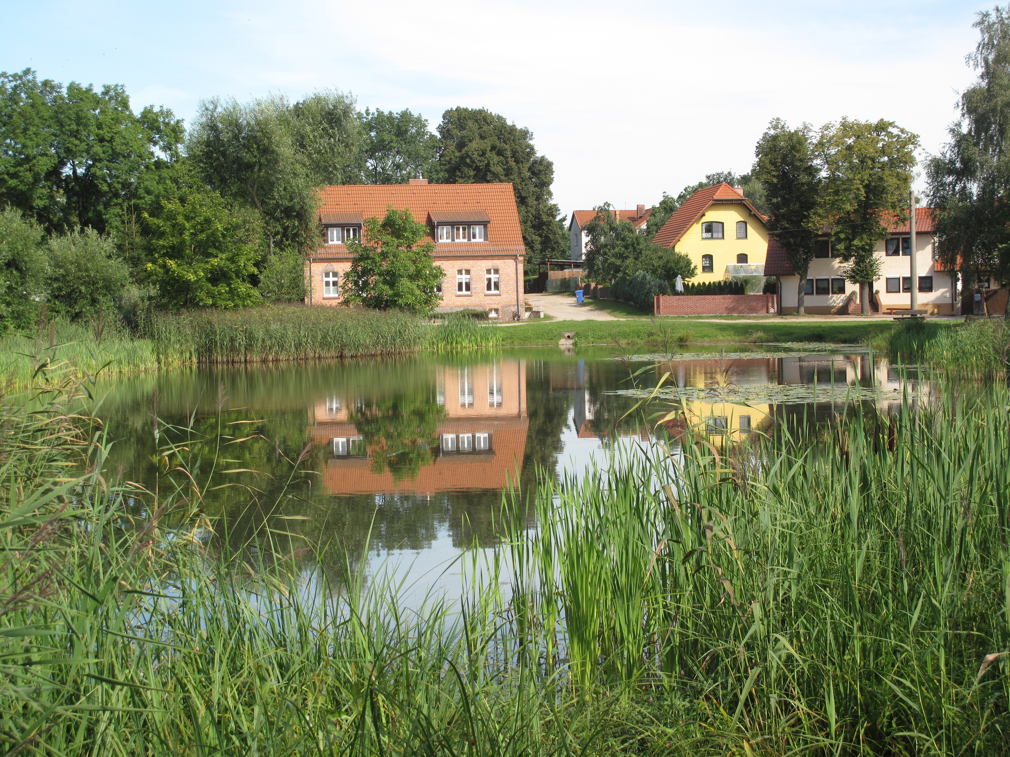 Villagepond Hohenstein. The village Hohenstein is a civil parish (Ortsteil) of the town Strausberg in the district Märkisch-Oderland, Brandenburg, Germany.